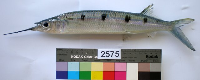 Hemiramphus far from off New Caledonia. 350 mm Fork Length, Weight 221g, Fish market, Nouméa, New Caledonia, date 2008/06/06